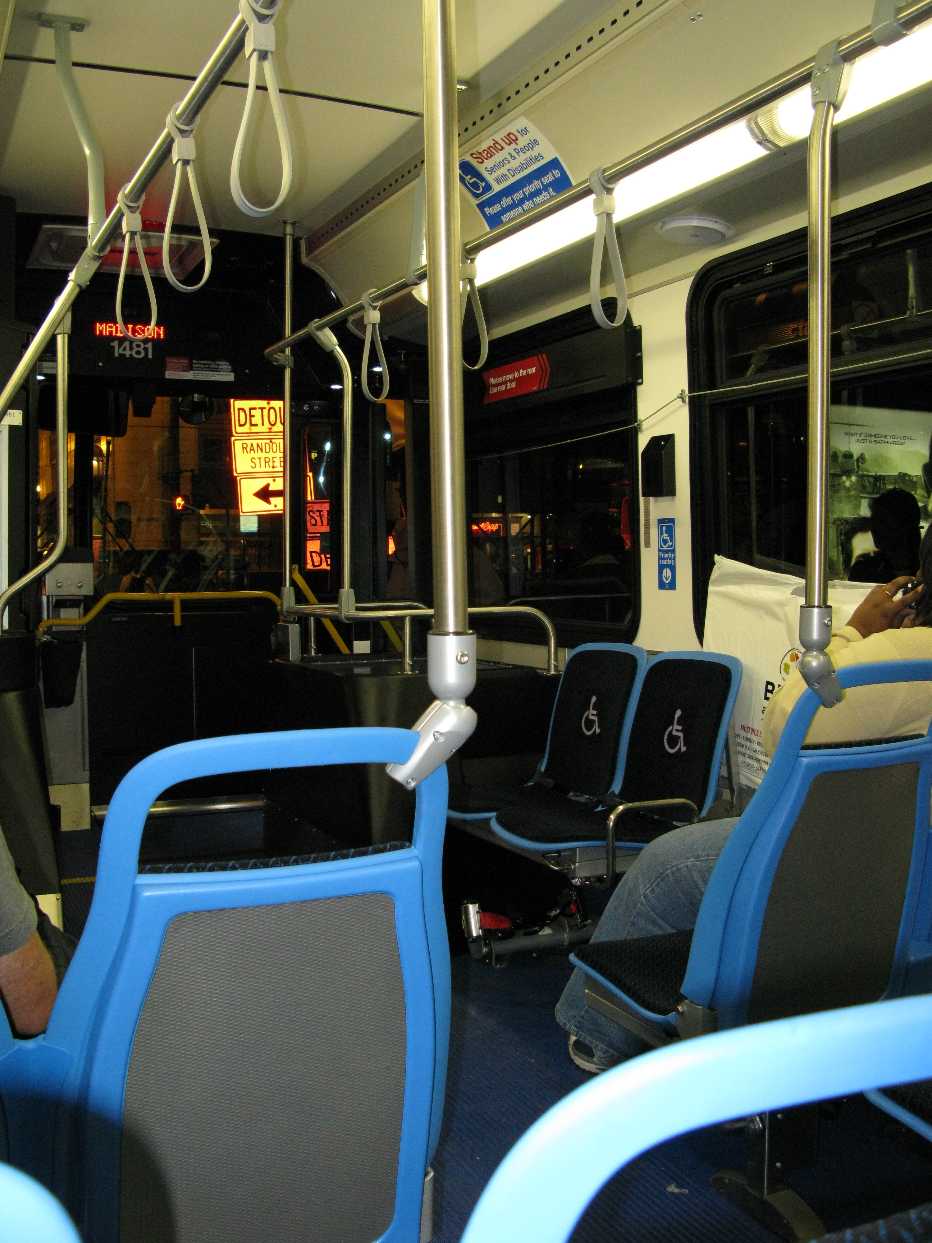 CTA bus interior, Chicago